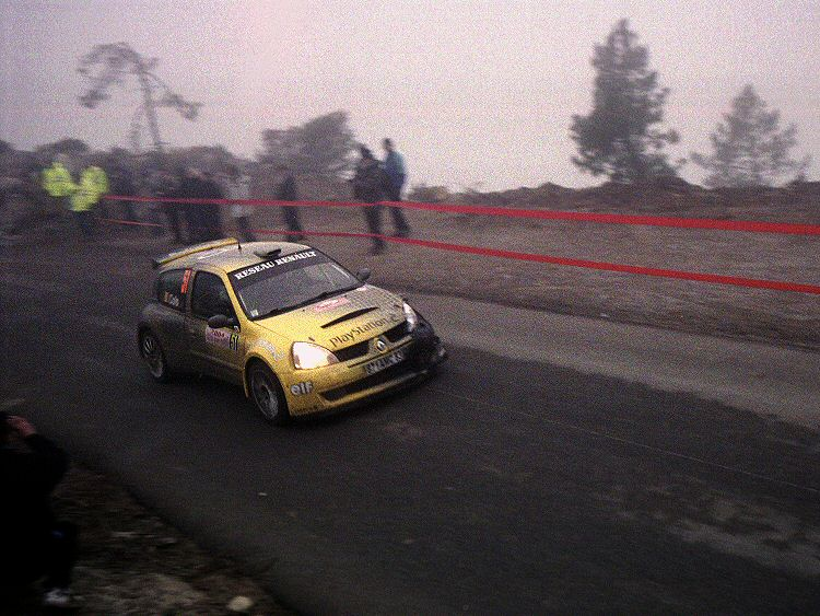 Renault Clio in Monte-Carlo Rally 2004